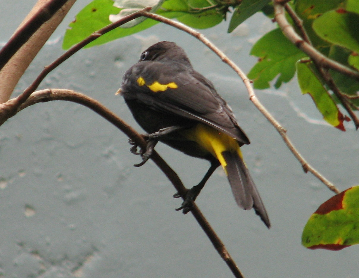 Yellow-rumped Cacique - Cacicus cela Taken at Cincinnati Zoo